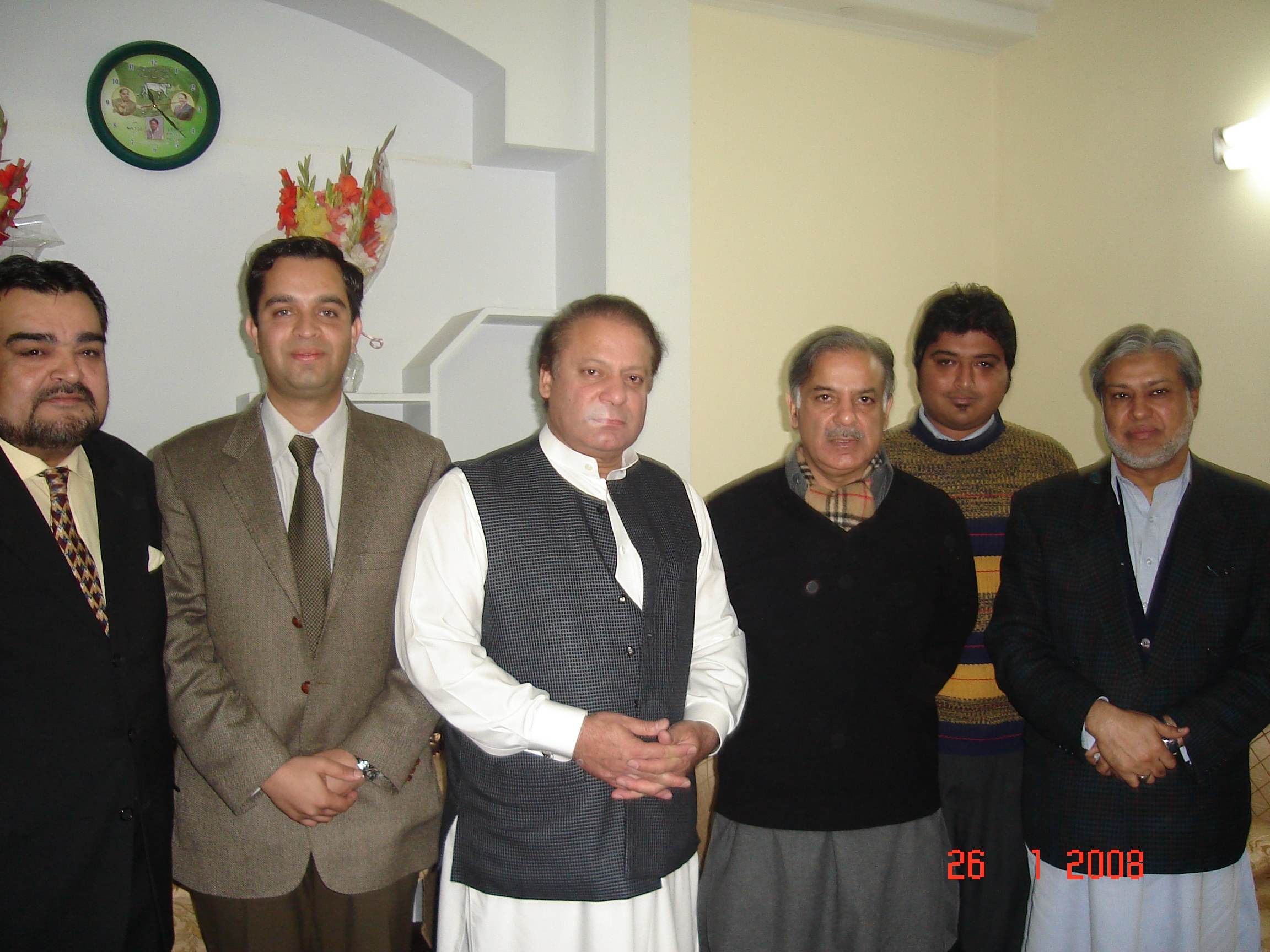 Nawaz Sharif meets envoy